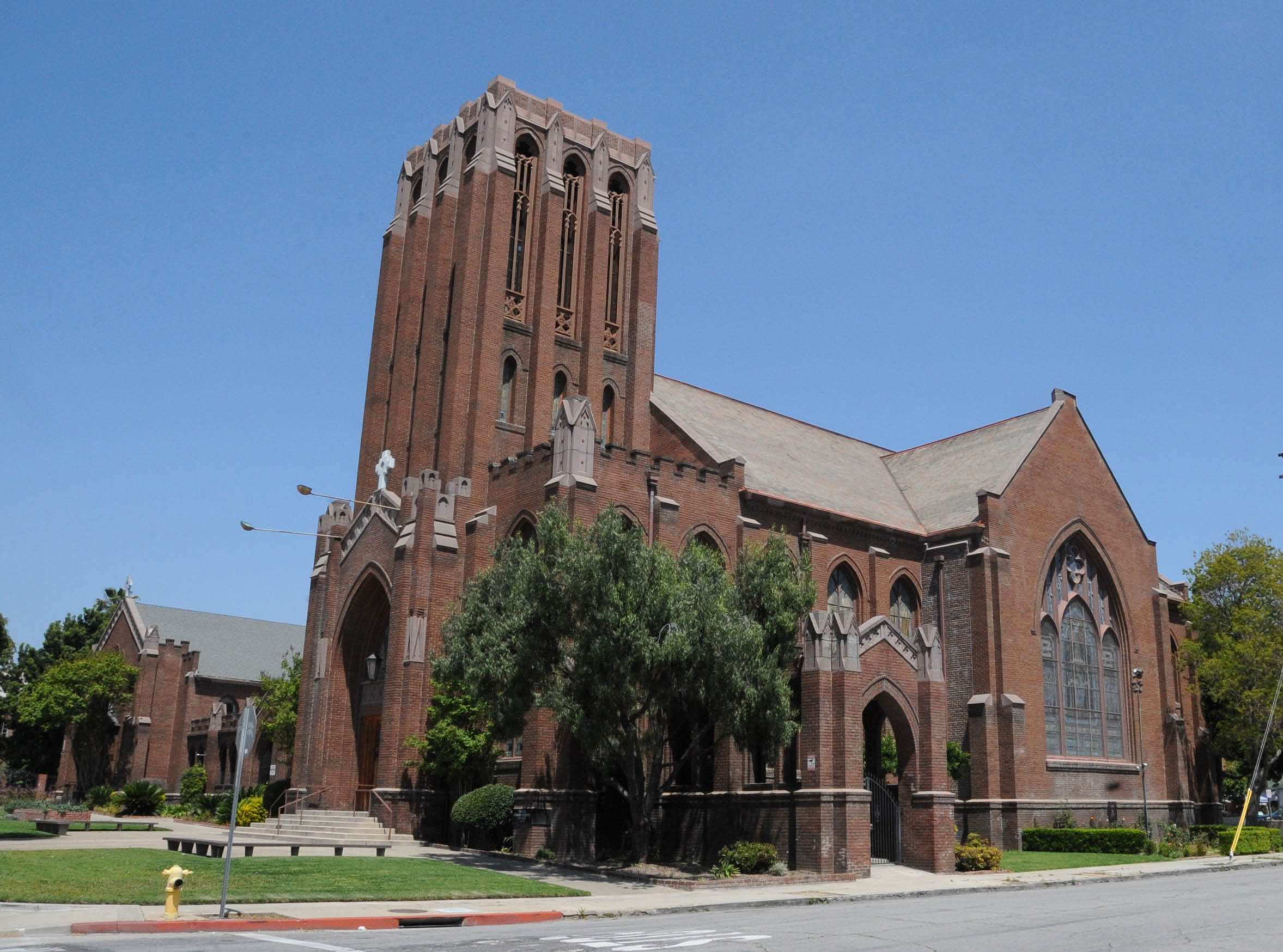 PILGRIM CONGREGATIONAL CHURCH – 1911 GOTHIC REVIVAL STYLE WITH THE CHURCH, PARISH HOUSE, SCHOOL AROUND A COURTYARD